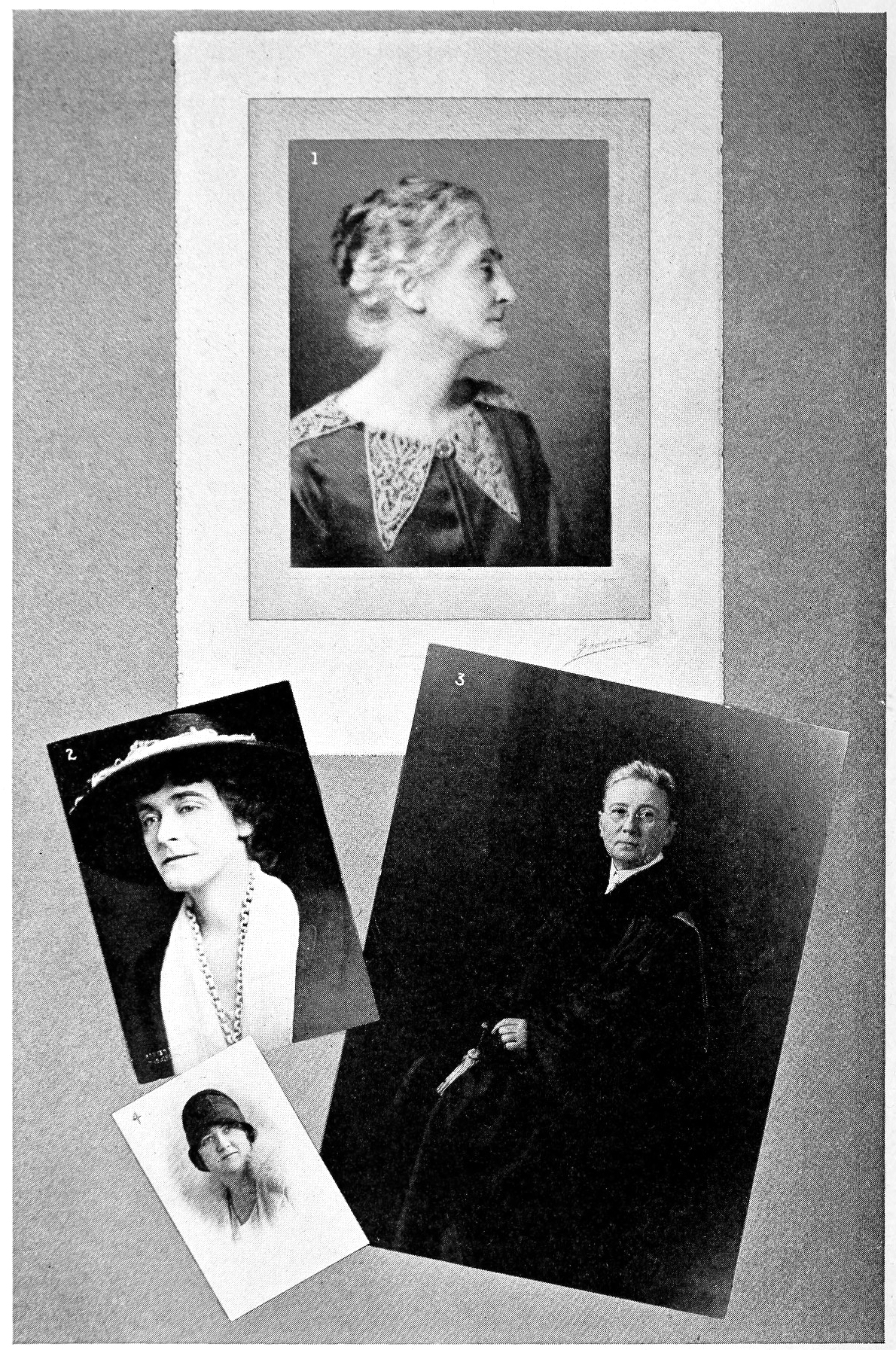 Women of the West; a series of biographical sketches of living eminent women in the eleven western states of the United States of America by Binheim, Max; Elvin, Charles A Publication date 1928 Topics Women Publisher Los Angeles, Calif., Publishers Press Collection uconn_libraries; americana Digitizing sponsor LYRASIS Members and Sloan Foundation Contributor University of Connecticut Libraries Language English 223 p. bports. c24 cm. Bookplateleaf 0003 Call number F595 .B59 Camera Canon EOS 5D Mark II Identifier womenofwestserie00binh Identifier-ark ark:/13960/t22c0sd8h Lccn 28021005 Ocr ABBYY FineReader 8.0 Page-progression lr Pages 284 Possible copyright status Copyright either not claimed or not renewed. Item is in the public domain. Ppi 500 Scandate 20130807152456 Scanner Scanningcenter boston Full catalog record MARCXML